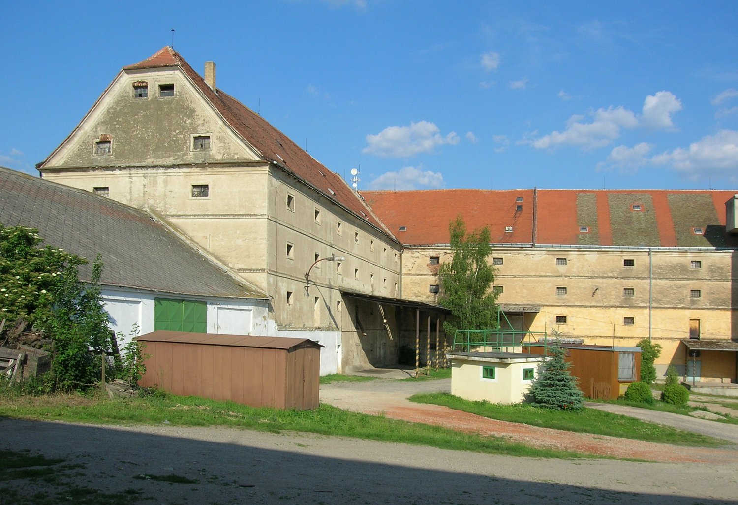 Jaroměřice nad Rokytnou. Granary built in 1648. West view